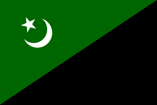 Flag of Islamist anarchism